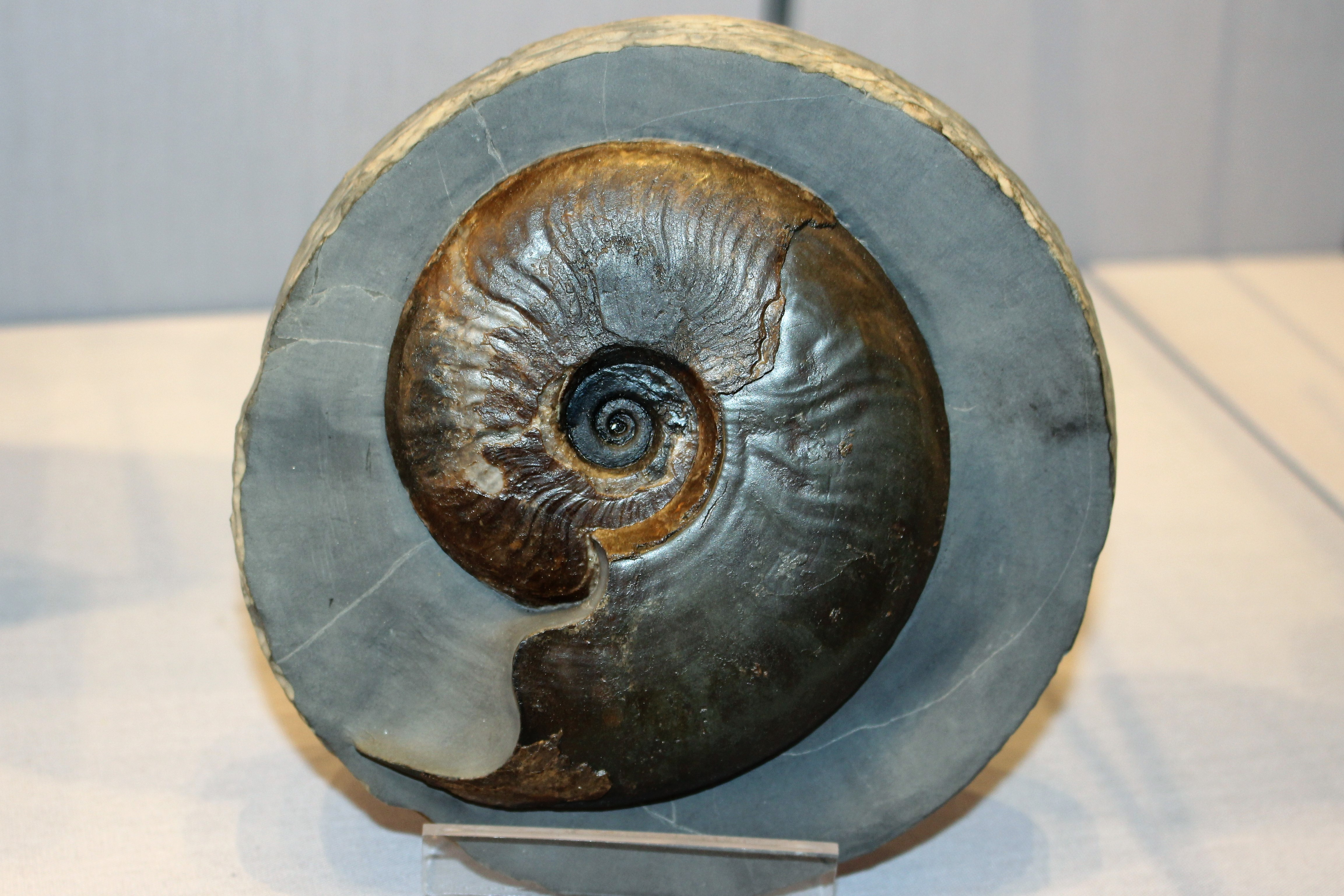 Cleviceras elegans in the Rotunda Museum, Scarborough, England.